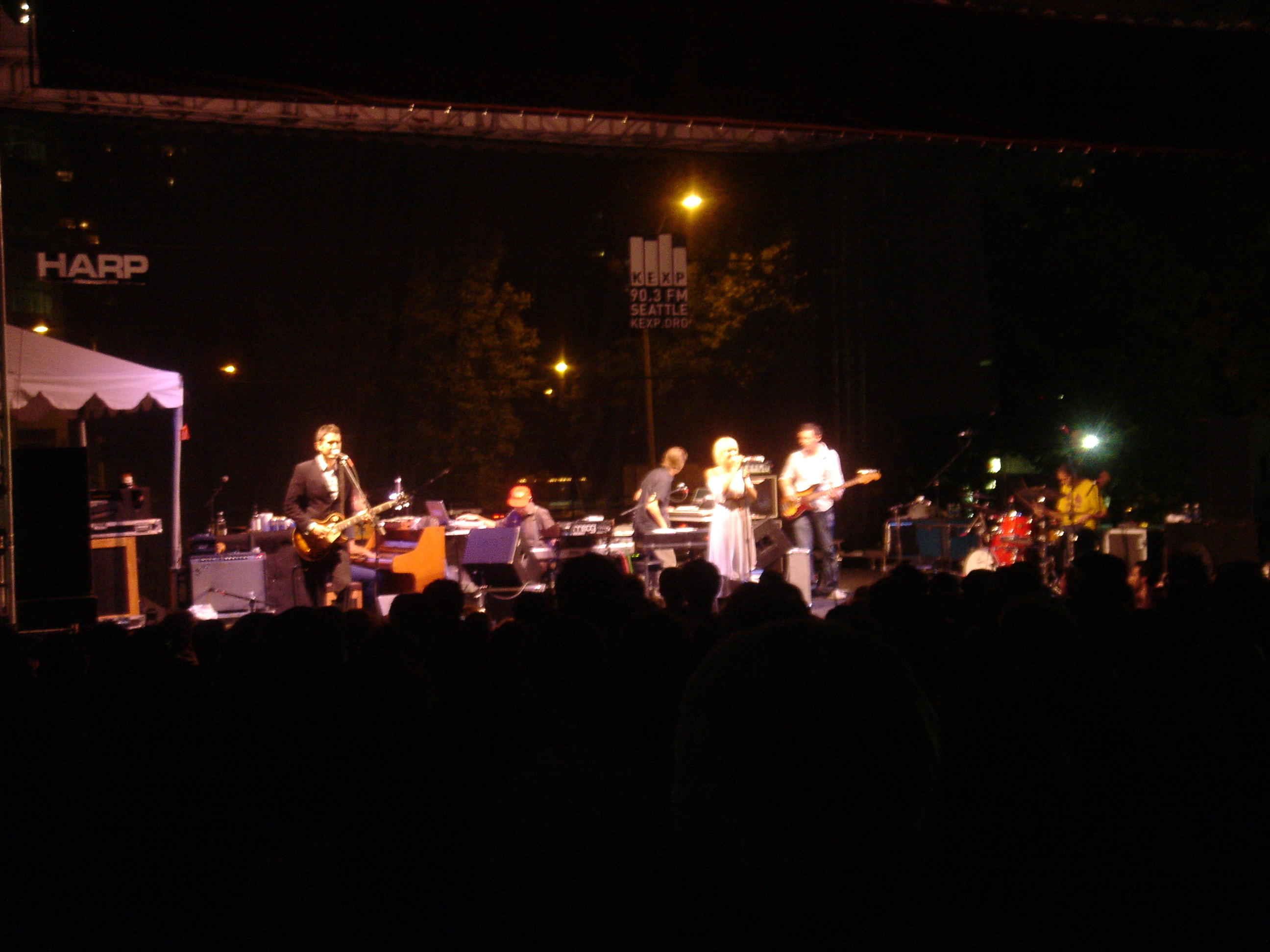 Zero 7 performing at Bumbershoot (they rocked) Camera: Canon EOS Digital Rebel XT Exposure: 0.02 sec (1/50) Aperture: f/5.6 Focal Length: 300 mm ISO Speed: 1600 Exposure Bias: 0/2 EV Flash:Flash did not fire Photometric Interpretation: 2 Orientation: Horizontal (normal) X-Resolution: 72 dpi Y-Resolution: 72 dpi Software: Adobe Photoshop CS Macintosh Date and Time: 2006:09:05 21:11:07 YCbCr Positioning:Centered Exposure Program: Shutter priority Date and Time (Original): 2006:09:03 22:28:29 Date and Time (Digitized): 2006:09:03 22:28:29 Shutter Speed: 369876/65536 Color Space: sRGB Focal Plane X-Resolution: 3954.233 dpi Focal Plane Y-Resolution: 3958.763 dpi Compression: JPEG Image Width: 2476 pixels Image Height: 1572 pixels